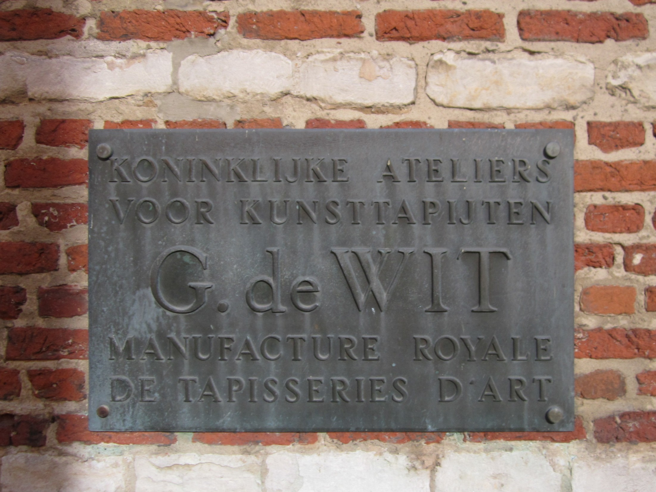 Refuge of Tongerlo Abbey in Mechelen. Nowadays seat of Tapestry Royal Manufactury De Witt.